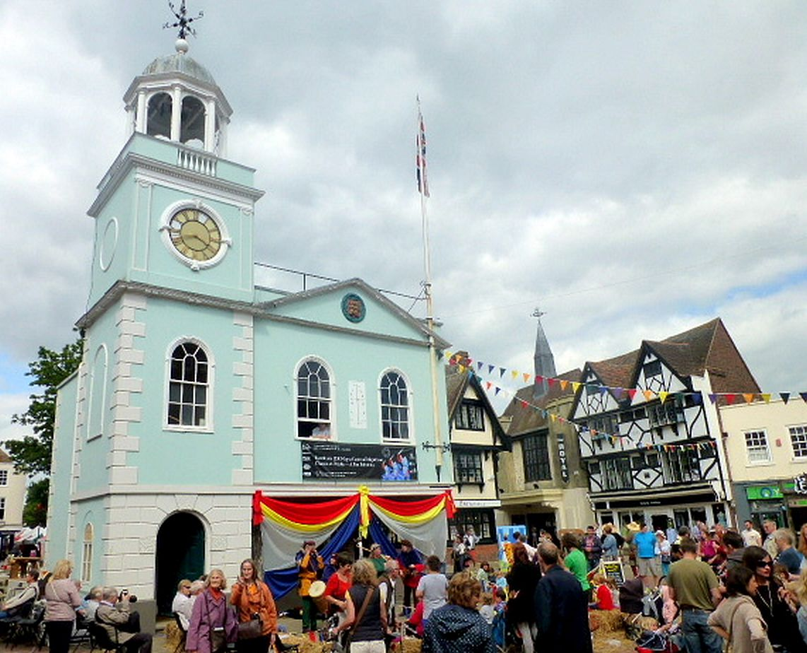 Faversham Market during Magna Carta celebration